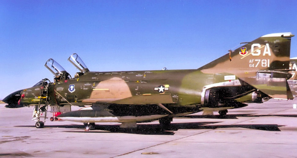 39th Tactical Fighter Training Squadron - McDonnell F-4C-23-MC Phantom 64-0781 at George AFB, about 1980